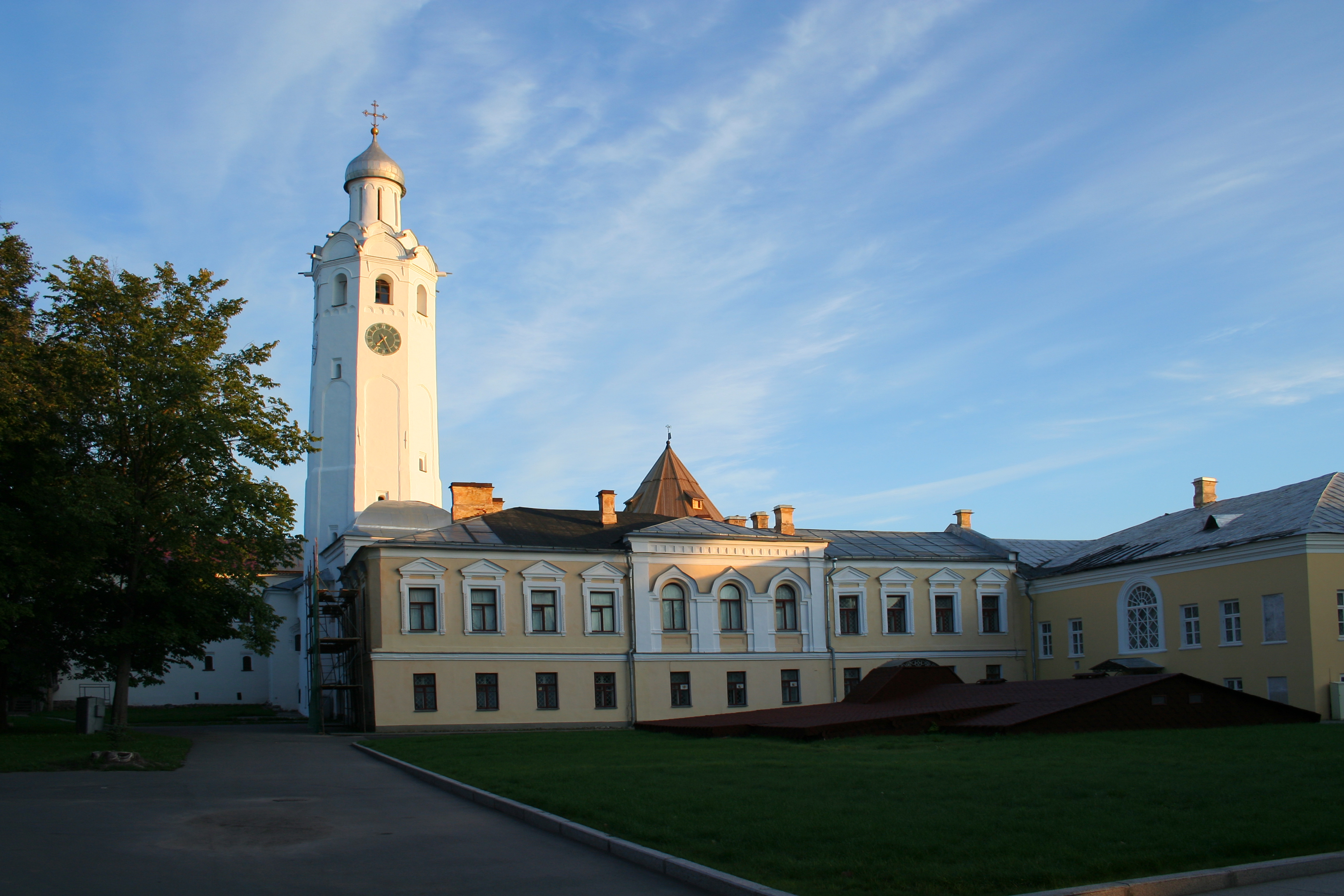 The Kremlin in Velikiy Novgorod, Russia. Former Greek-Slavic School.